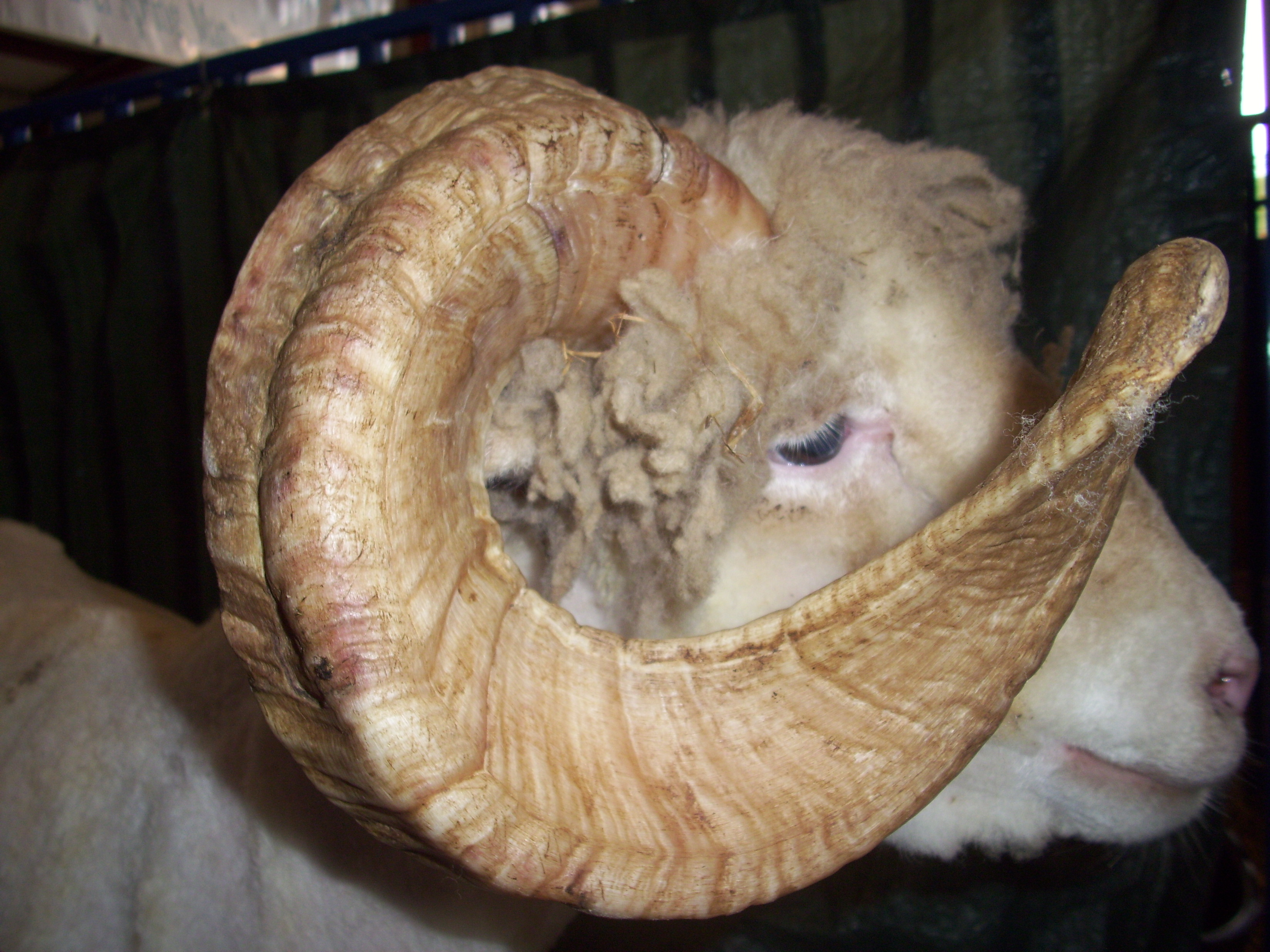 Dorset (sheep) at the 2010 Maryland Sheep and Wool Festival. The animal was raised at the Stratton Hall Sheep and Herb Farm of Swedesboro, New Jersey.